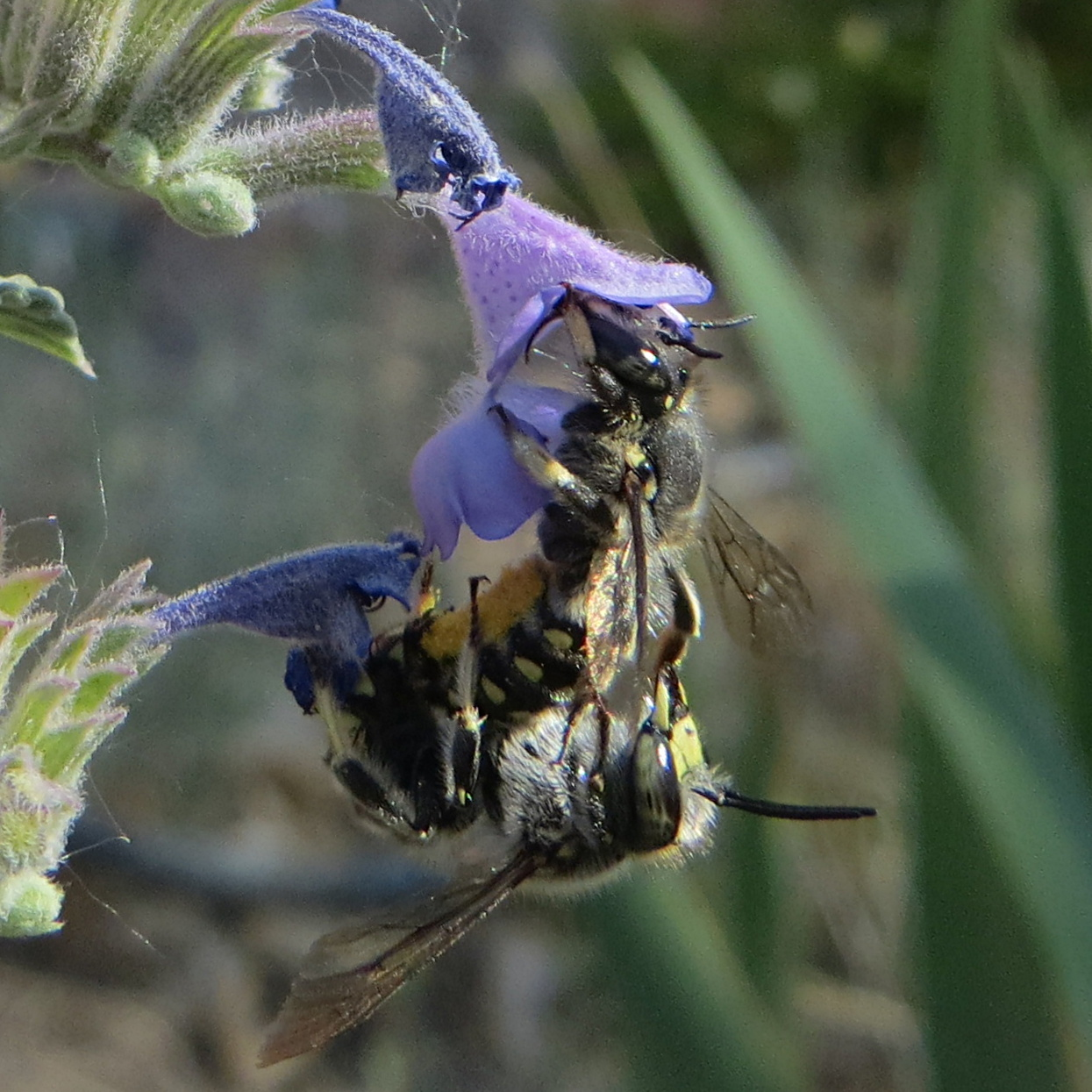 Pair of wool-carder bees, Anthidium maculosum, mating on catmint (Nepeta cv.) Thanks to Shaun Michael and John Ascher at for identification.